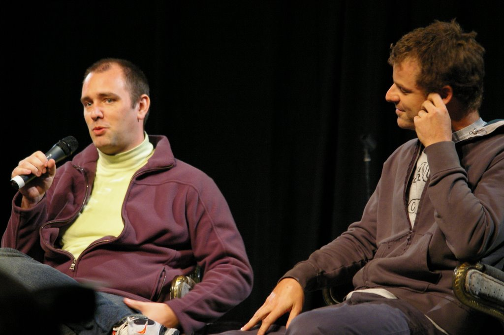 Trey Parker and Matt Stone at The Amazing Meeting on January 20, 2007